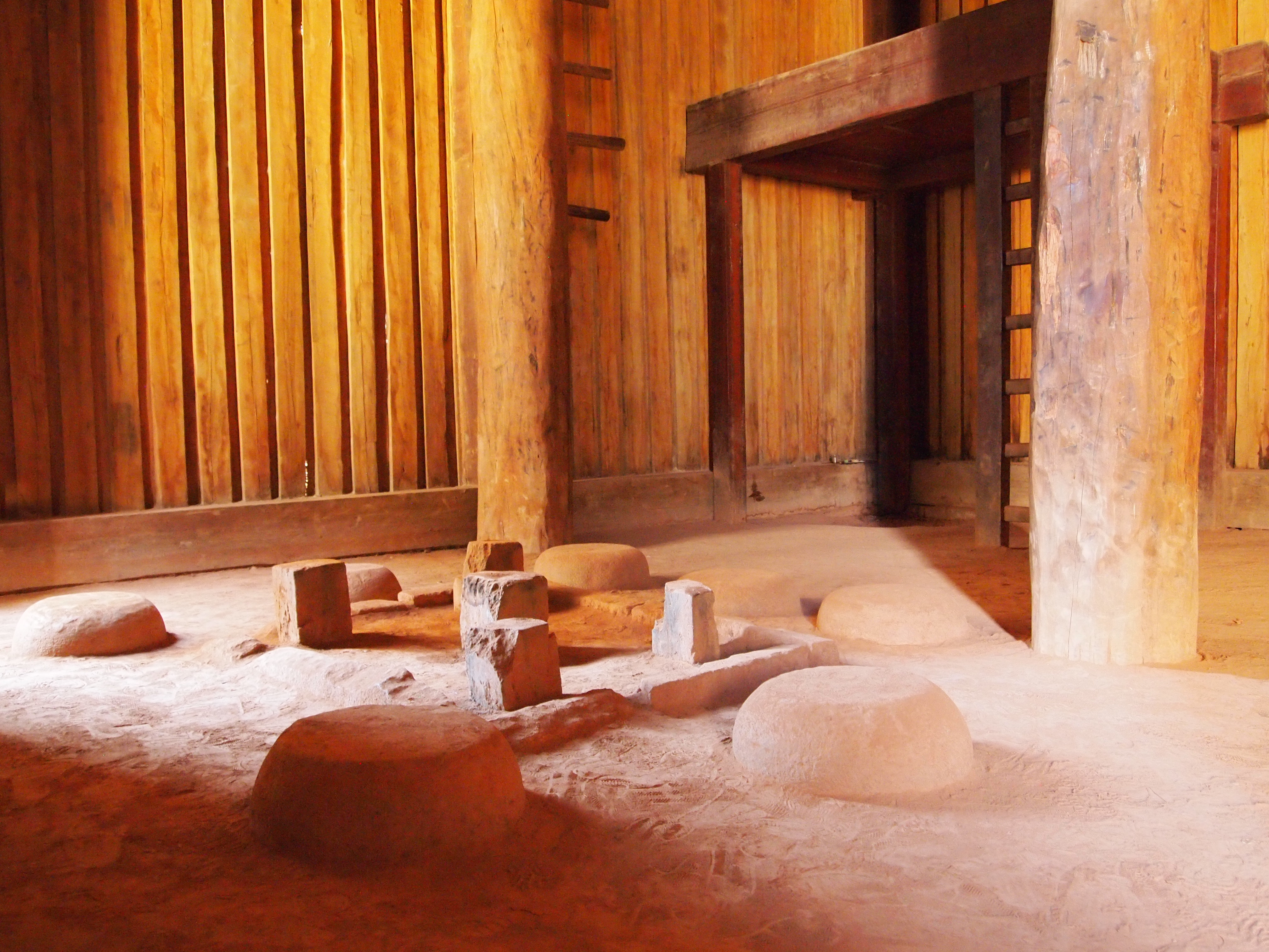 Interior of Reconstructed Mahitsielafanjaka palace at Rova of Antananarivo Madagascar